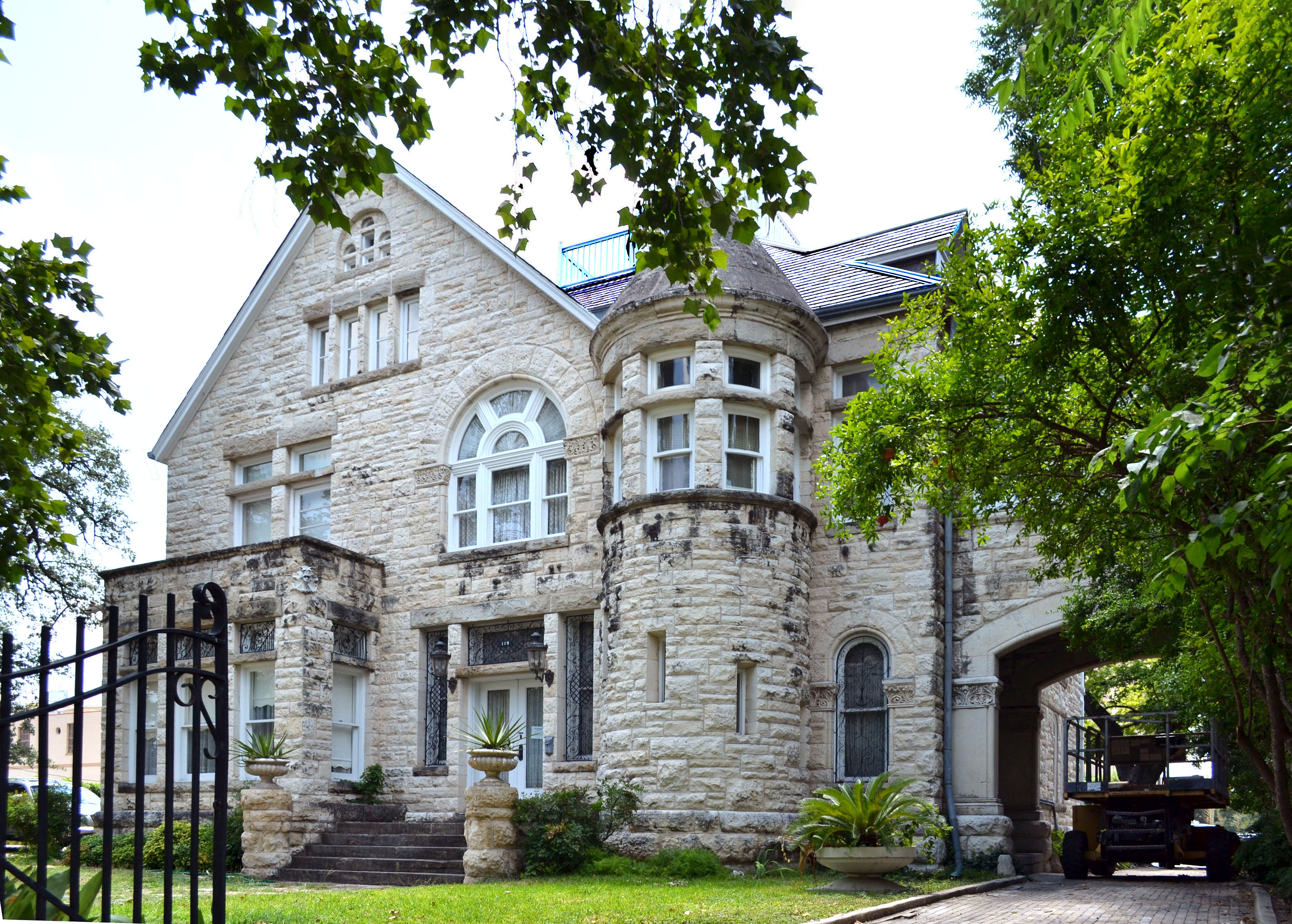 The Maverick-Carter House, San Antonio, Texas. Listed on the National Register of Historic Places.